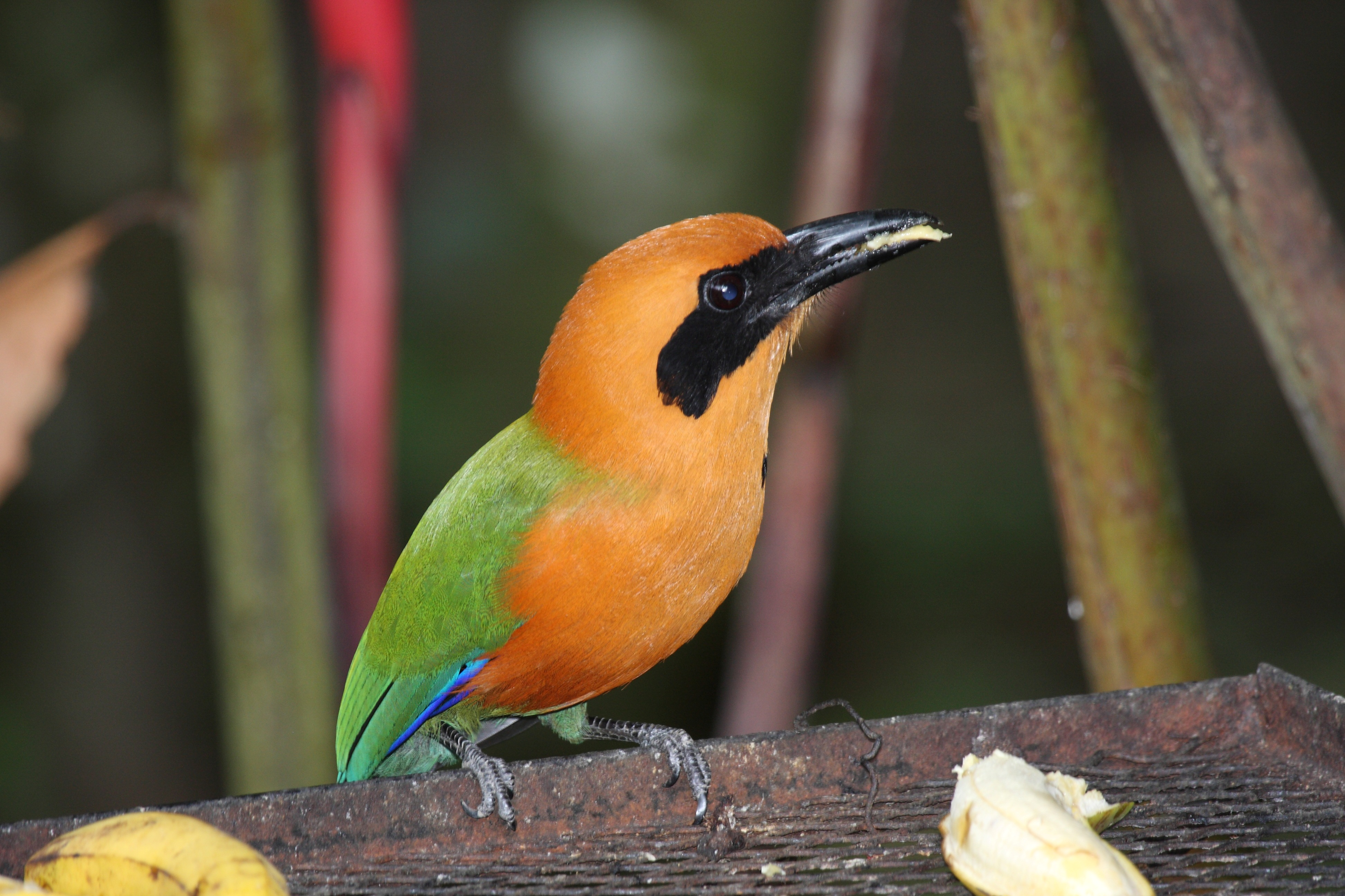 A Rufous Motmot in Panama.